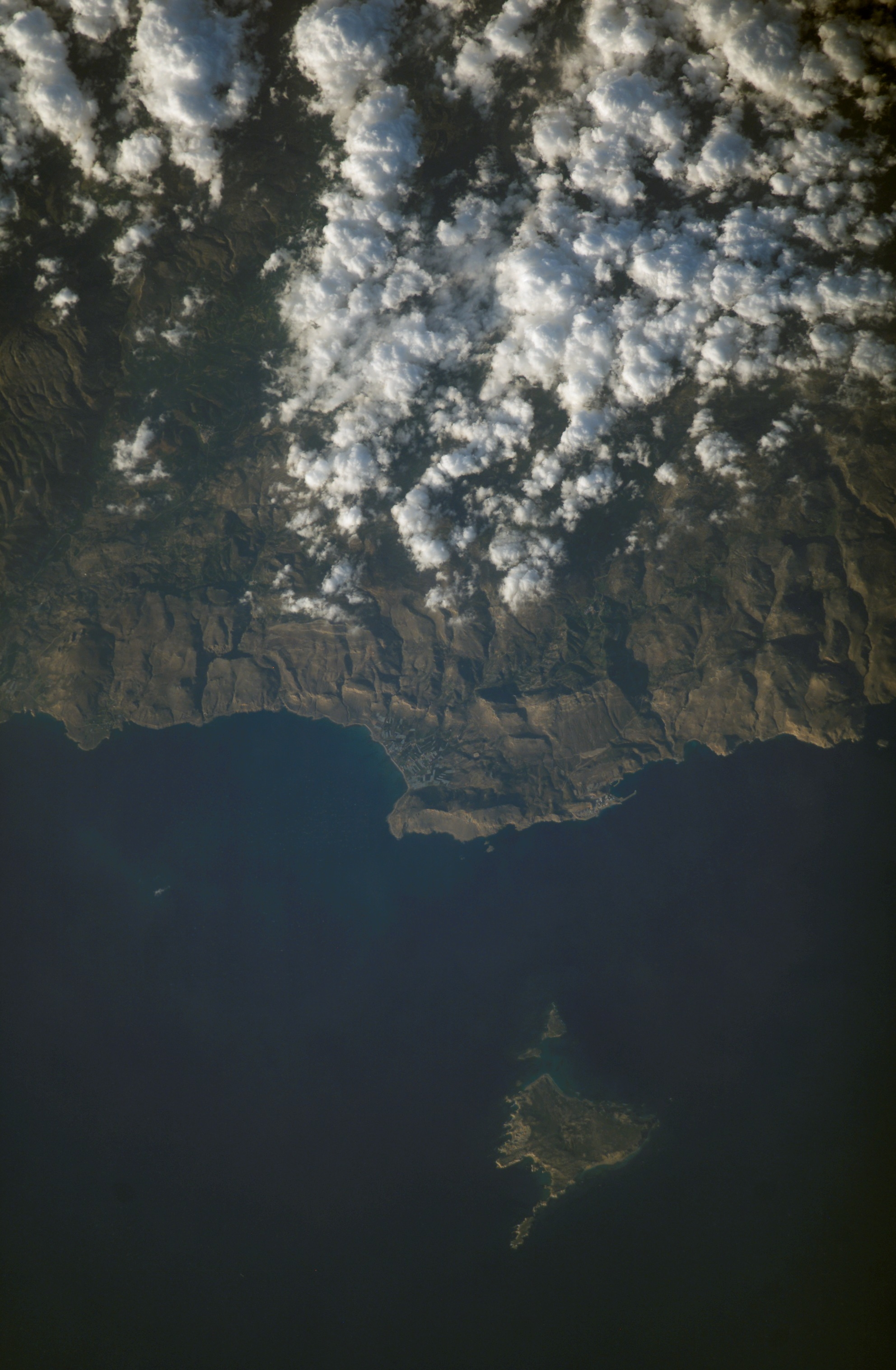 Mission: ISS016 Roll: E Frame: 19109 Mission ID on the Film or image: ISS016 Country or Geographic Name: CRETE Features: C. GOUDOURA, KOUFONISI ISLAND Center Point Latitude: 35.0 Center Point Longitude: 26.1 (Negative numbers indicate south for latitude and west for longitude) Image Science and Analysis Laboratory, NASA-Johnson Space Center. "The Gateway to Astronaut Photography of Earth." (10/03/2009) . Send questions or comments to the NASA Responsible Official at Curator: Earth Sciences Web Team Notices: Web Accessibility and Policy Notices, NASA Web Privacy Policy